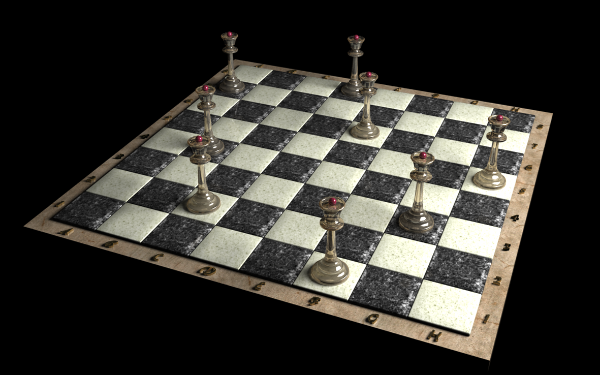 Problem of eight queens